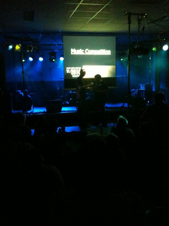 Music competition at X2010, Holland.